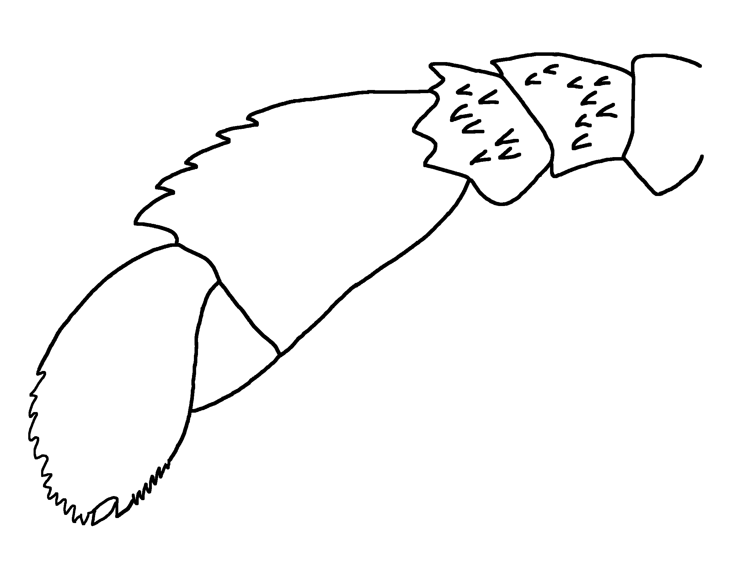 Restoration of the swimming leg of the eurypterid species Bassipterus virginicus, based on Kjellesvig-Waering & Leutze, 1966.